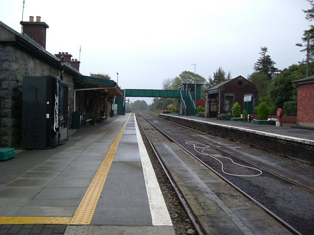 Westport Station Iarnrod Eireann's Westport Station. Dublin - Westport Facing Castlebar